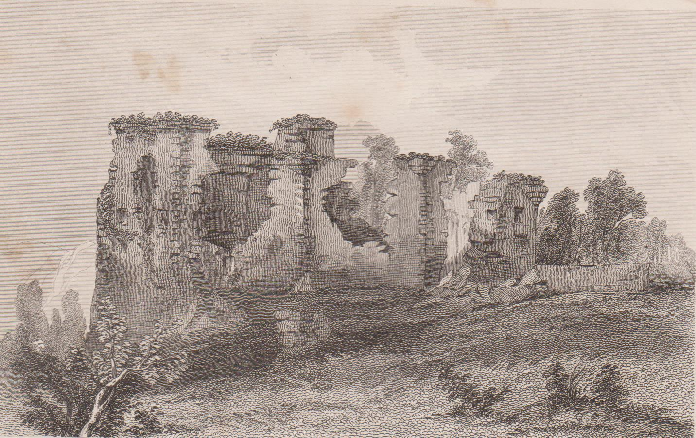 An engraving of Glengarnock Castle circa 1854 by William Dobie as published in the 'Ayrshire Wreath' of 1855.